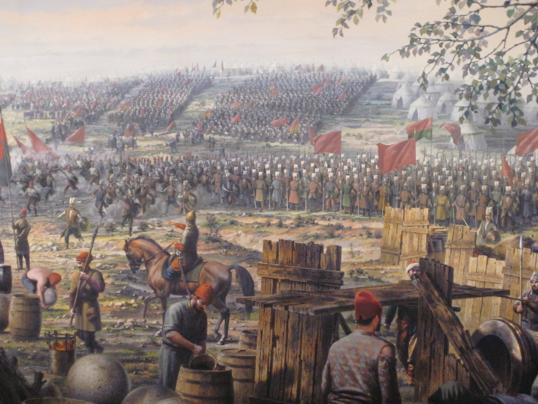 Panorama 1453 History Museum